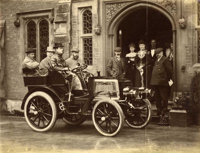 "Photograph of the Hon. C.S. Rolls' (in a Panhard & Levassor) autocar with HRH The Duke of York, Lord Llangattock [Rolls' father], Sir Charles Cust and the Hon. C.S. Rolls as occupants", taken by John Howard Preston. Charles Stewart Rolls went on to co-found Rolls-Royce in 1904. The photograph shows 'The Hendre', the family's gothic mansion in Monmouthshire. The car is believed to be a 1900 model Panhard & Levassor 12CV B1 M4F. Rolls held the agency for these cars